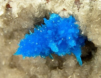 Pentagonite Locality: Wagholi Quarry, Wagholi, Pune District (Poonah District), Maharashtra, India (Locality at ) Size: 6.3 x 3.7 x 2.3 cm. Pentagonite occurs here as a Christmas tree-shaped cluster of 1.7 cm in length, with lustrous and translucent, rich, neon-blue, crystals. The pentagonite is nestled protectively in a vug of lustrous, translucent, colorless heulandite crystals. Tim Blackwood Collection.